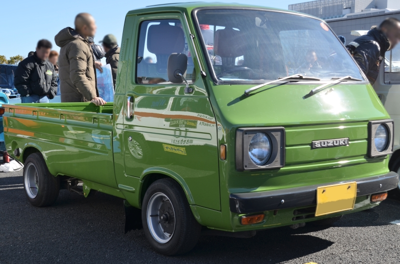 Suzuki Carry Wide